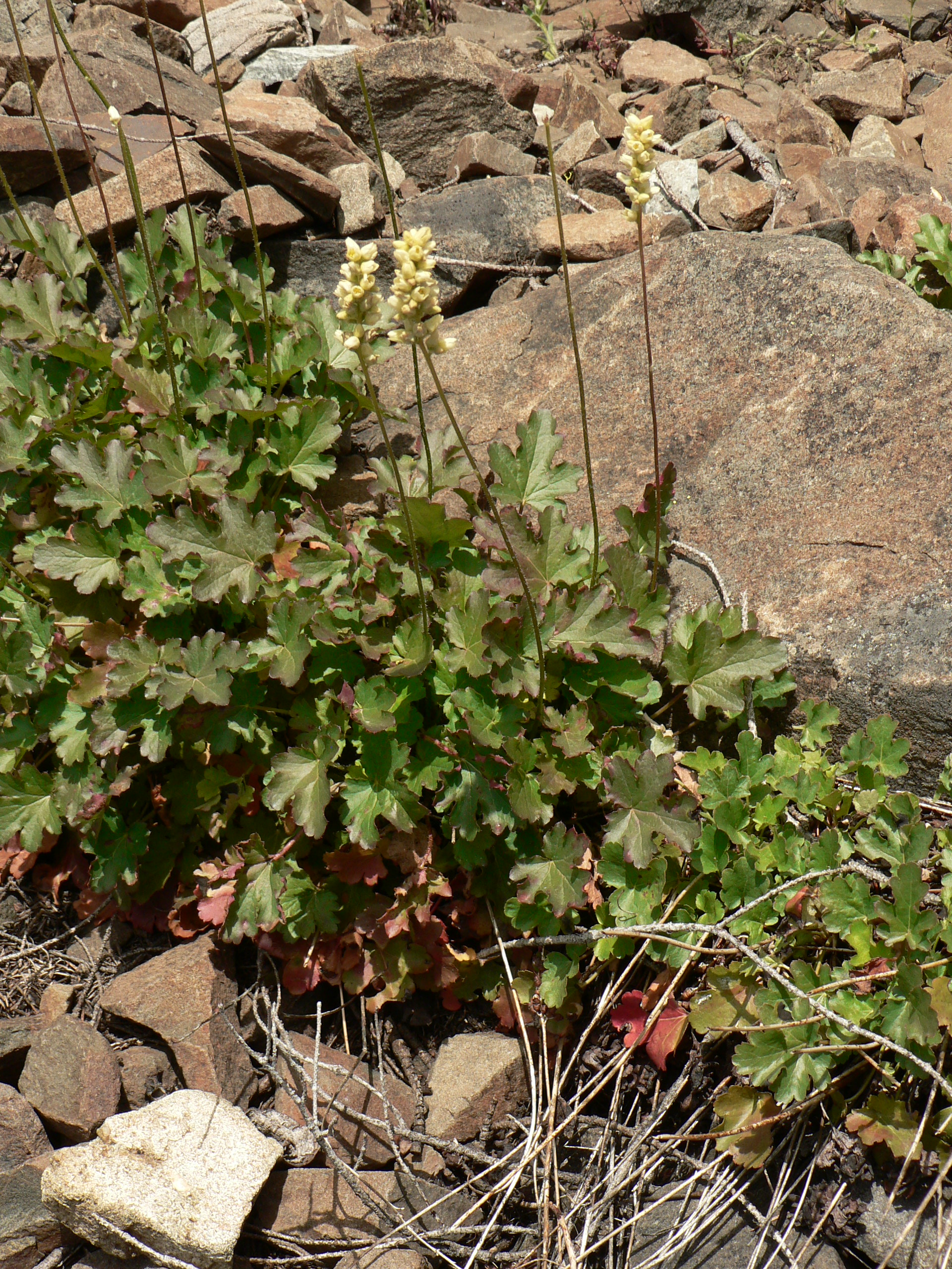 Roundleaf Alumroot, Lava Alumroot